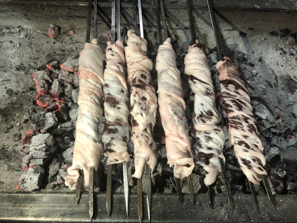 Cerwez (Jarg-Waz) some kinde of Kebab which prepare from liver and fat curtains in Kurdish and Lurish Fat curtains.